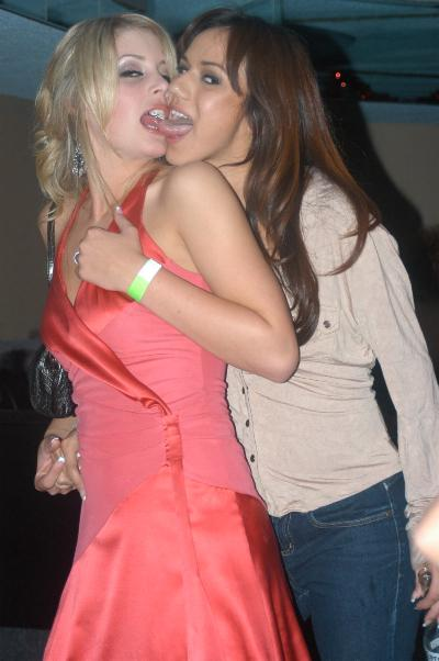 Lacie Heart, Nadia Styles at LA Direct Model's Party, Dec 19, 2005